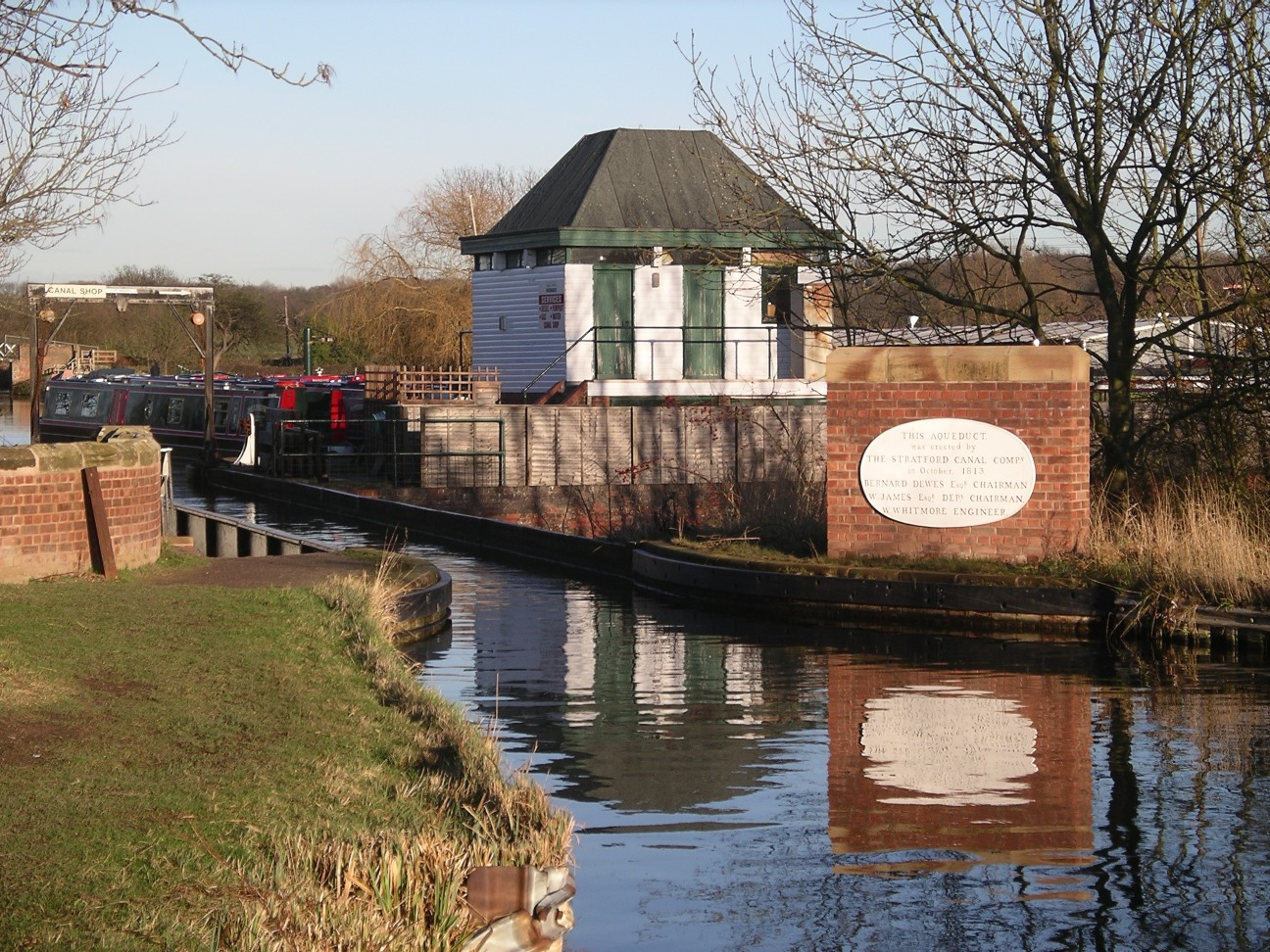 Aqueduct on the Stratford upon Avon Canal at Wootton Wawen Author: User:Velela. Location: Wootton Wawen , Warwickshire January 25 2005 Source: Personal photograph taken by Author Technical data: PentaxOptio 555 digital camera. 1/250s @f3.8